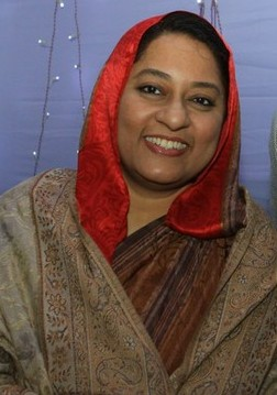 Justice Farah Mahbub 1